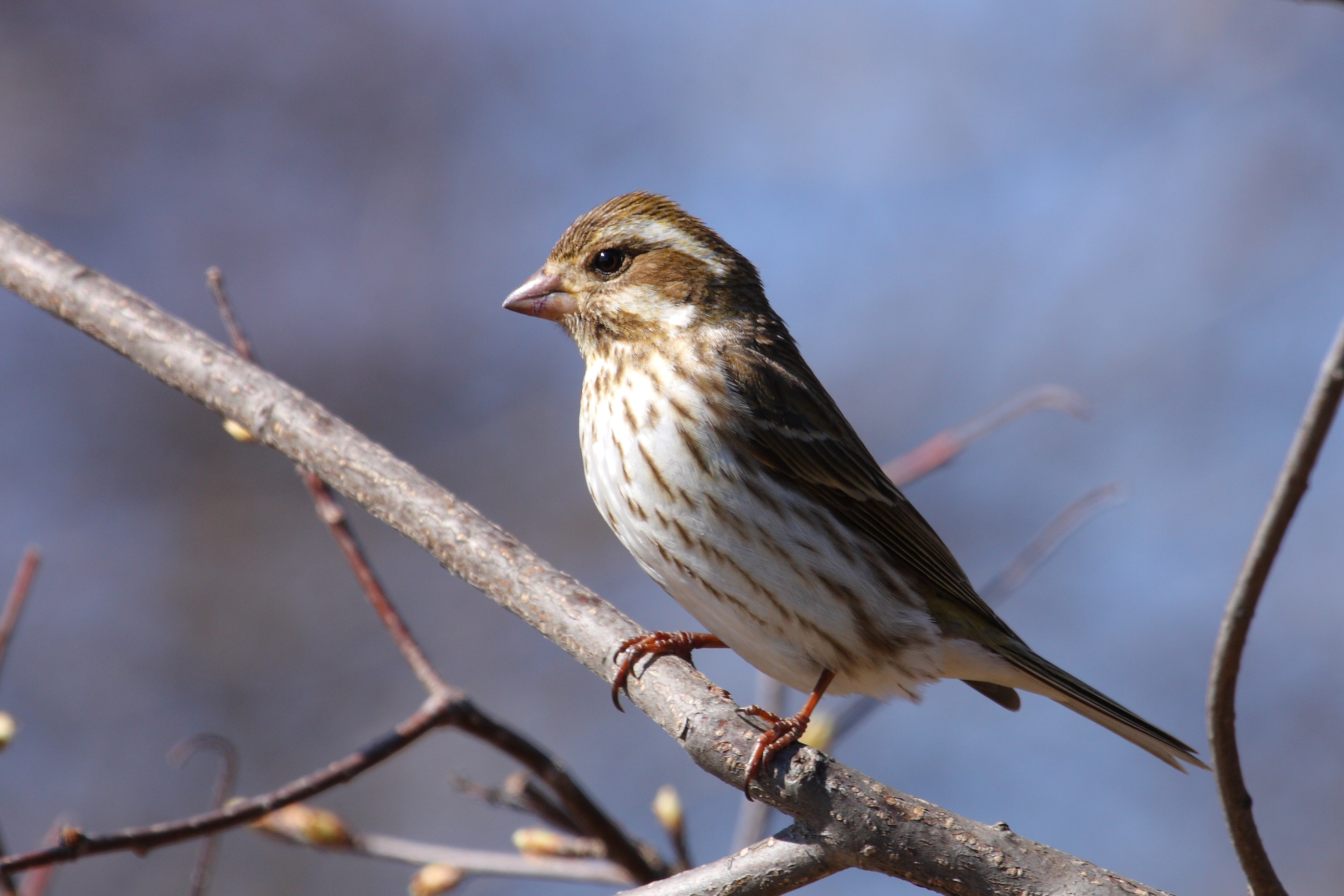 Purple Finch (Carpodacus purpureus) female, Cap Tourmente National Wildlife Area, Quebec, Canada.